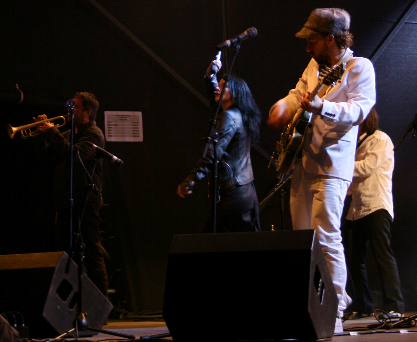 Shantel and the Bukovina Orkestar performing in the Prater in Vienna.